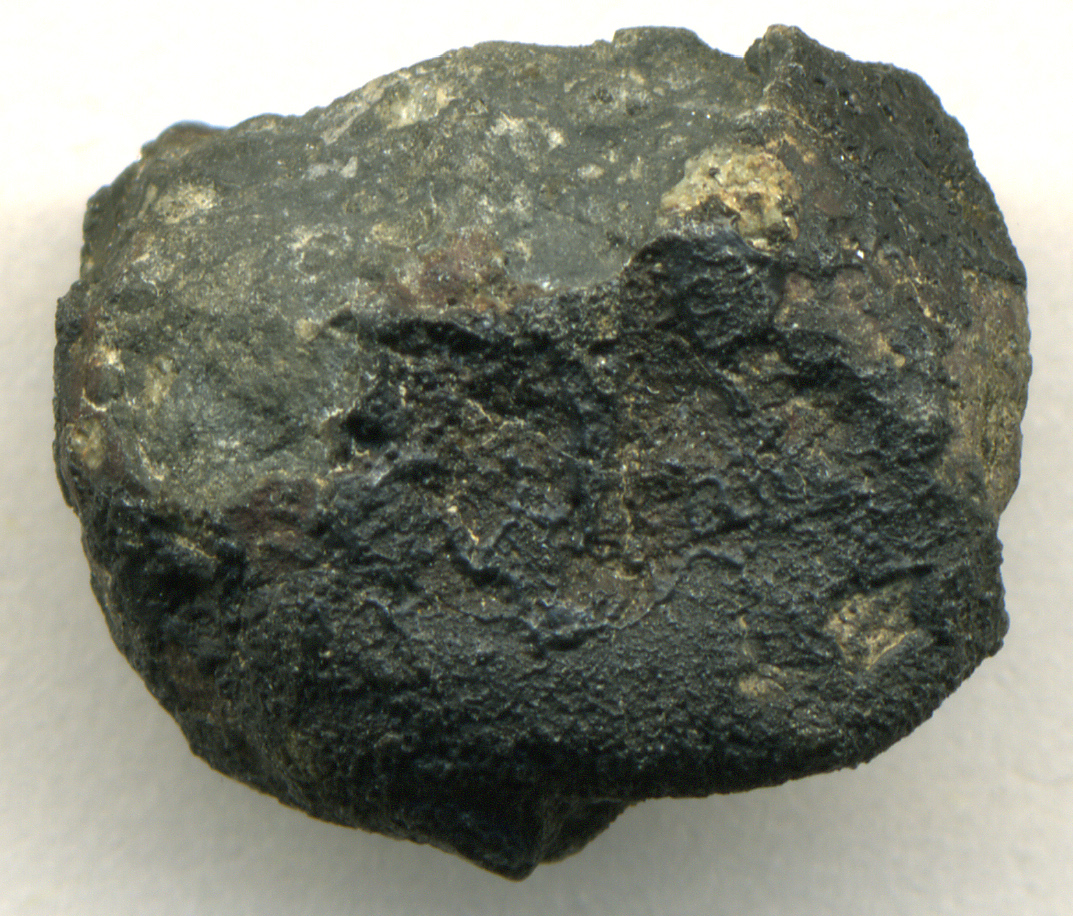 Allende ceteorite, carbonaceous chondrite. Small broken individua, 1.4 cm across.